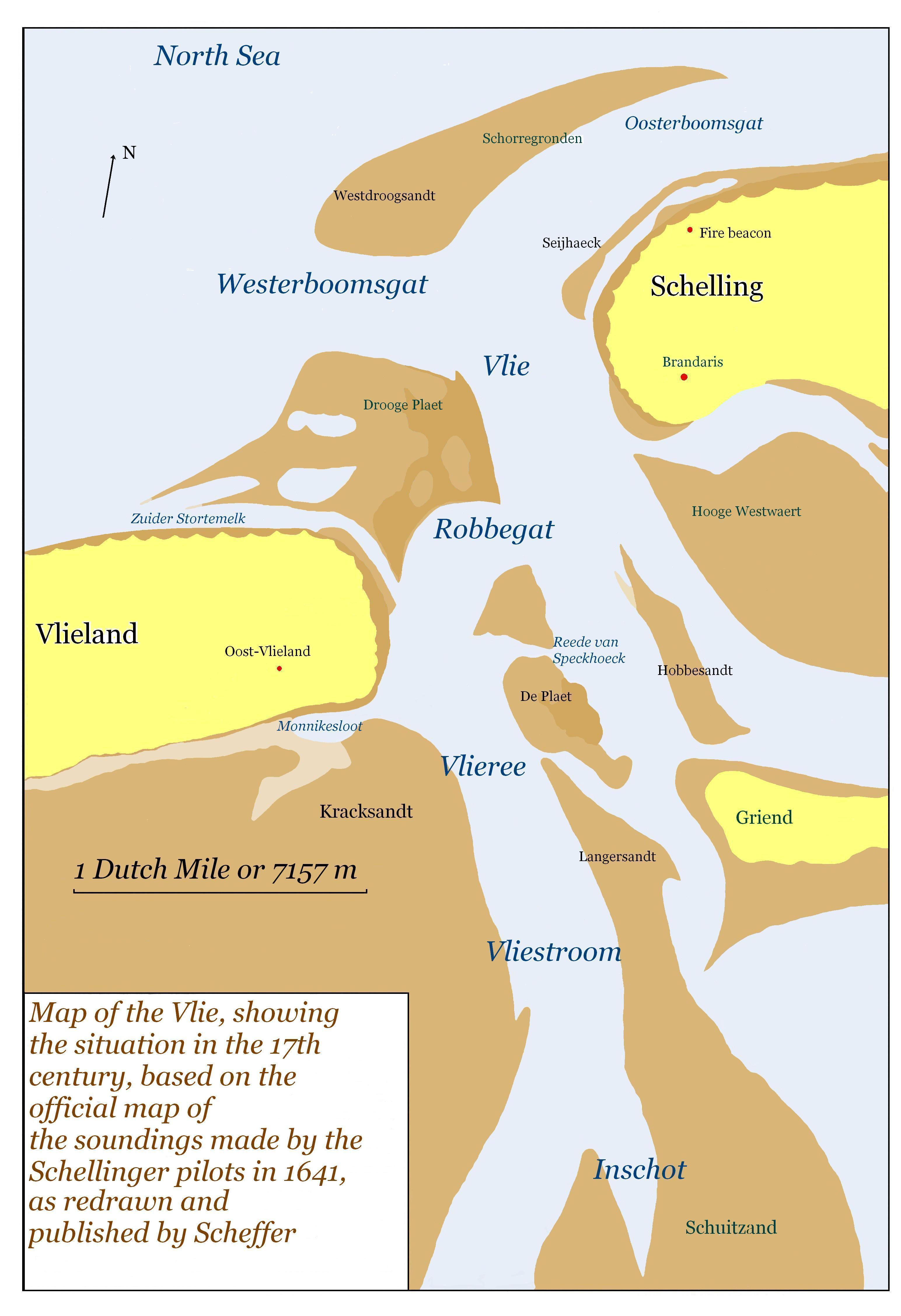 Map of Vlie area, based on the 1641 map made by the Schellinger pilots